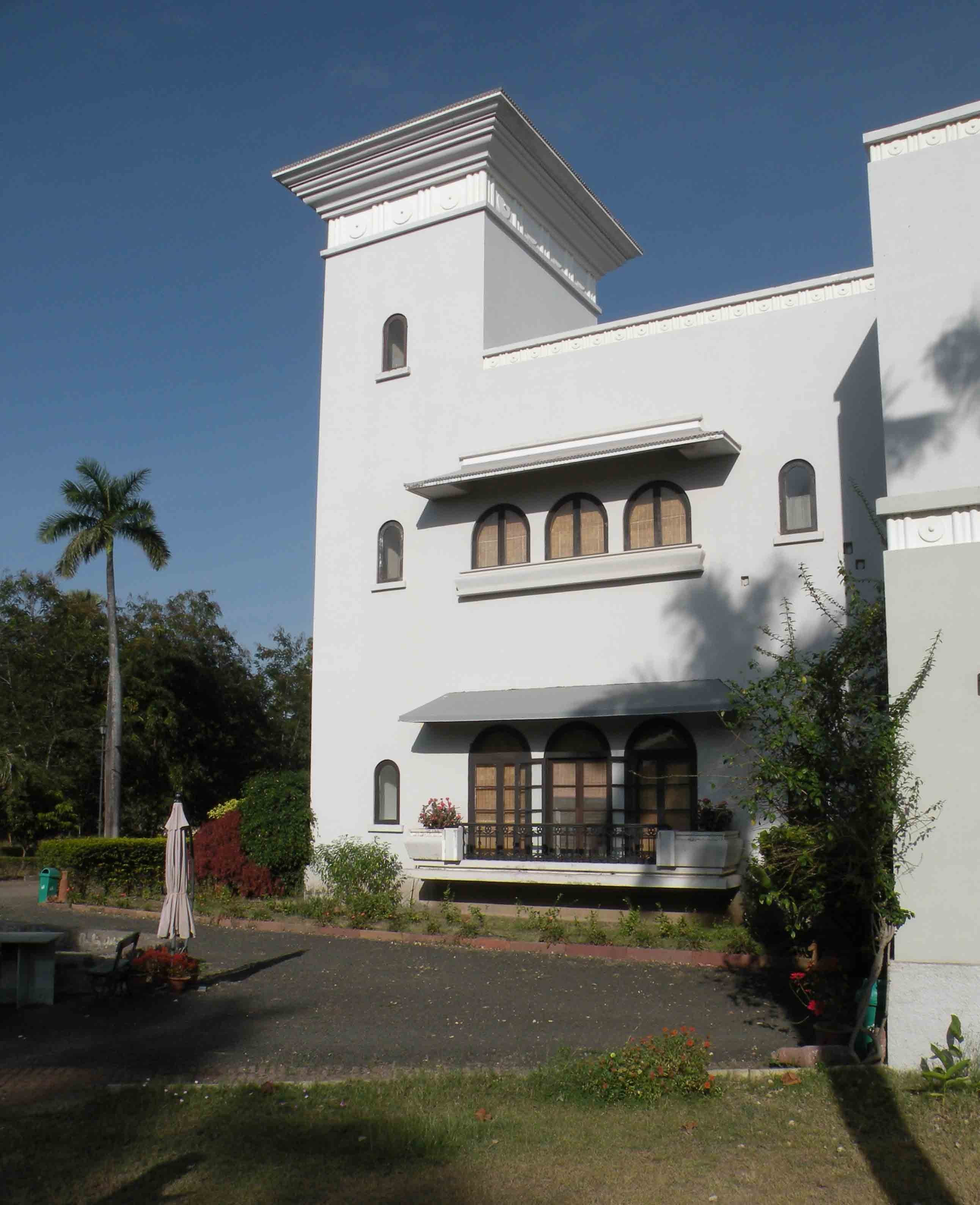 Exterior of the Jheera Bagh Palace at Dhar, Madhya Pradesh, India